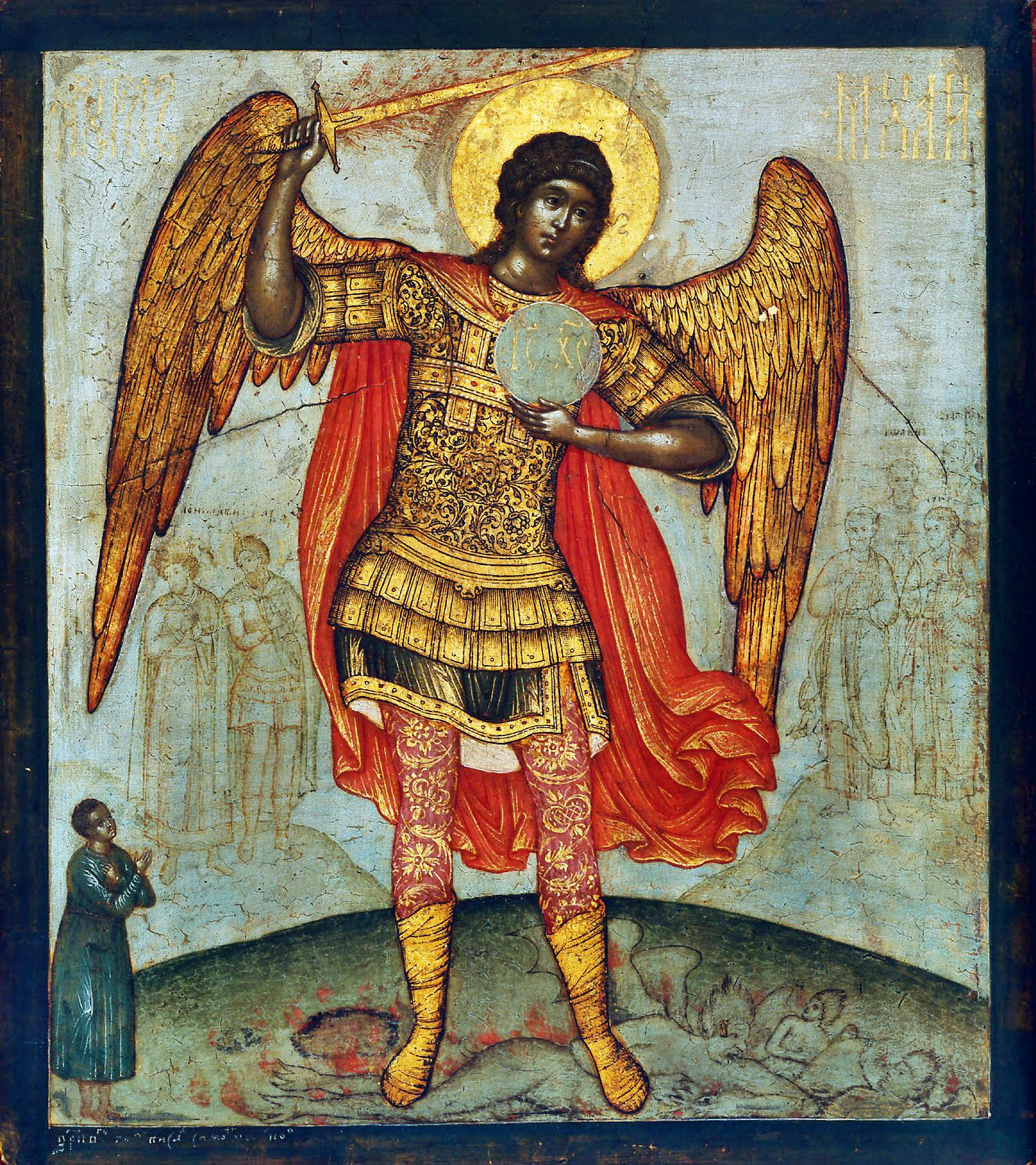 The Archangel Michael Trampling the Devil Underfoot. 1676. 23 x 20.5 cm. The Tretyakov Gallery, Moscow, Russia